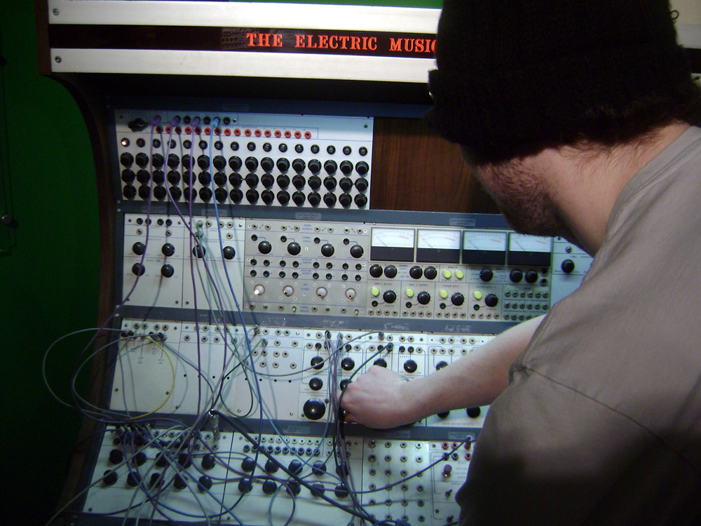 Buchla 100 series Modular Electronic Music System in a 200 case[1] (demo) Visited the Cantos Foundation and took a lot of pictures & video. Our guide, Brandon, showing us the Buchla 100. References ↑ Collection Checklist. Cantos Music Foundation.